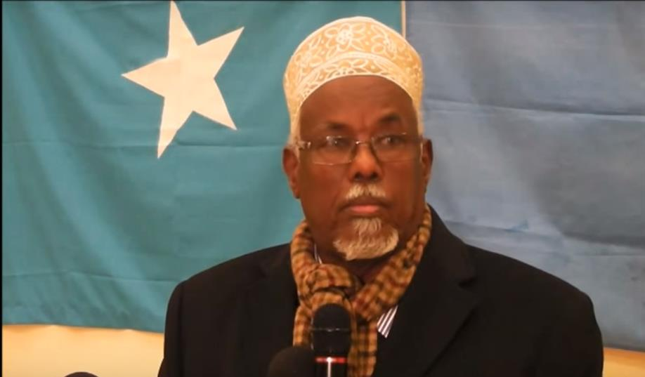 Aabihii Waxbarashada Soomaaliyeed